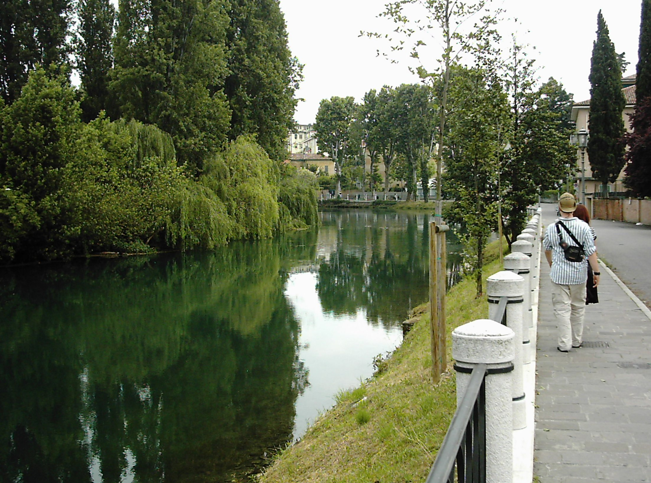 Moat around the old city.